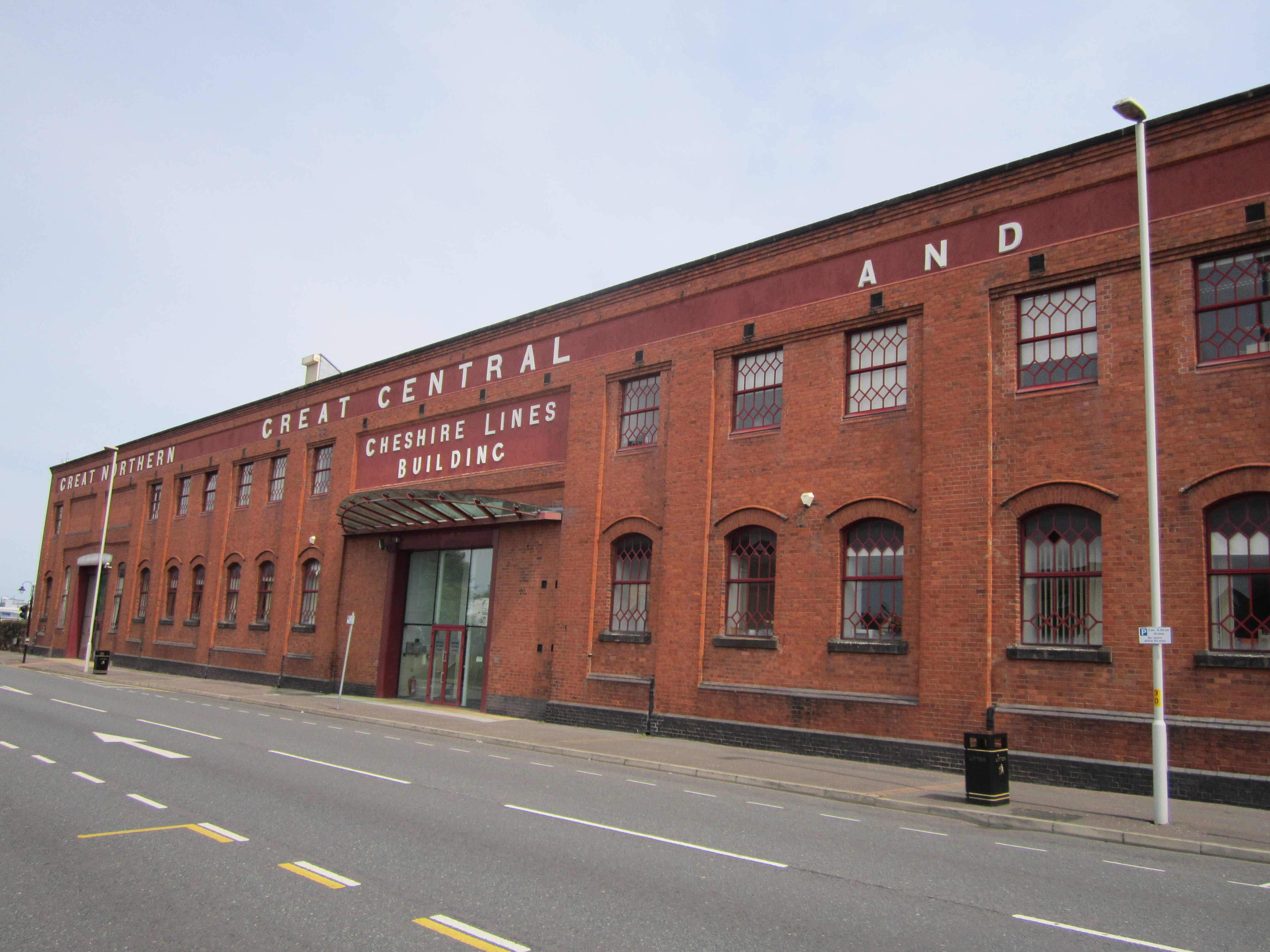 Cheshire Lines Building, Birkenhead , Merseyside, England.